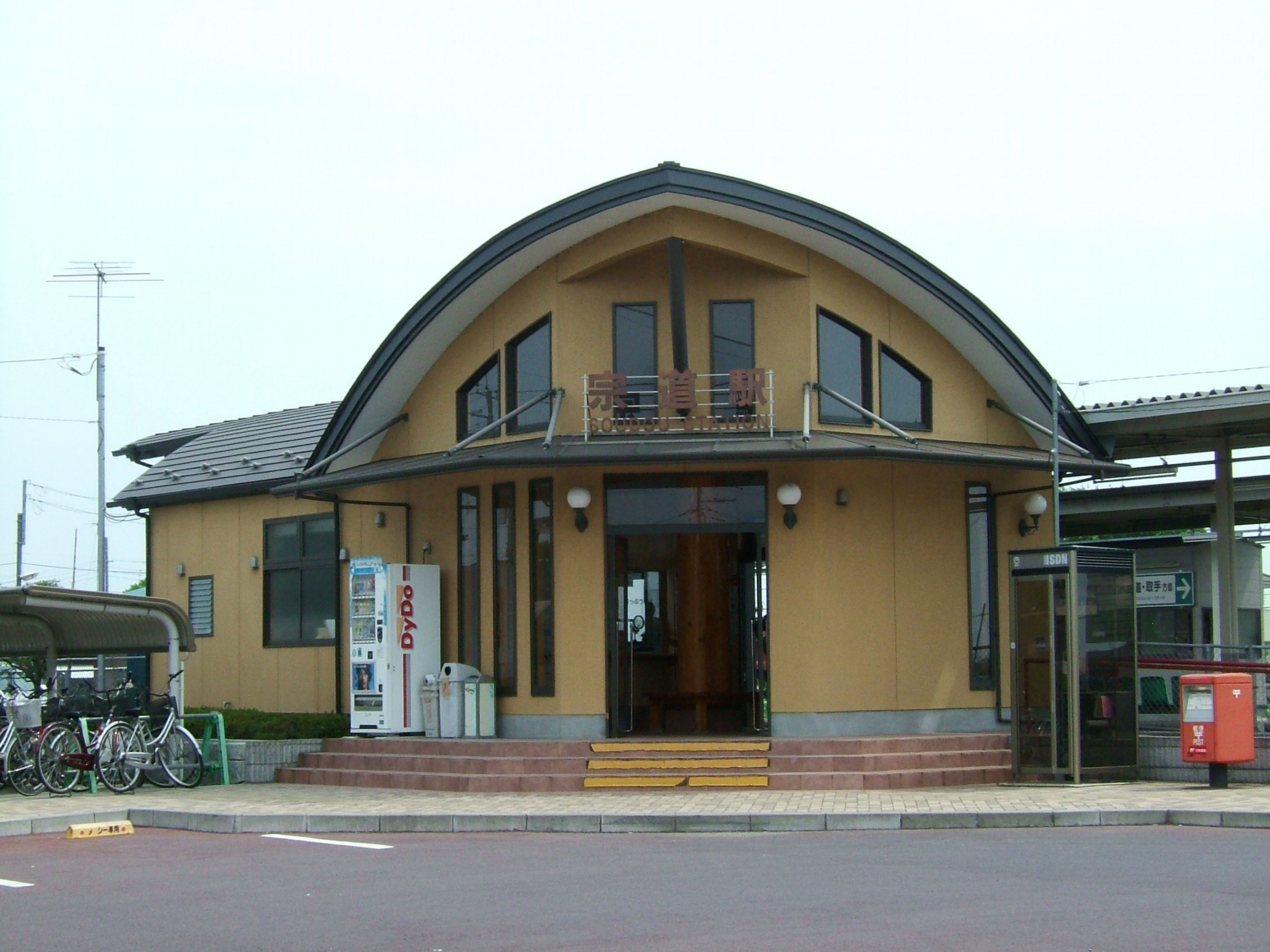 Sōdō Station building (Kanto Railway Jōsō Line)